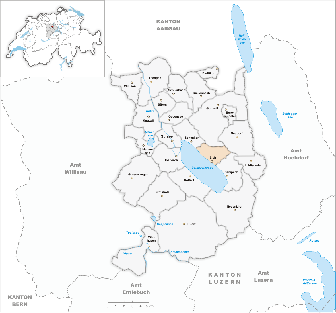 Municipality Eich